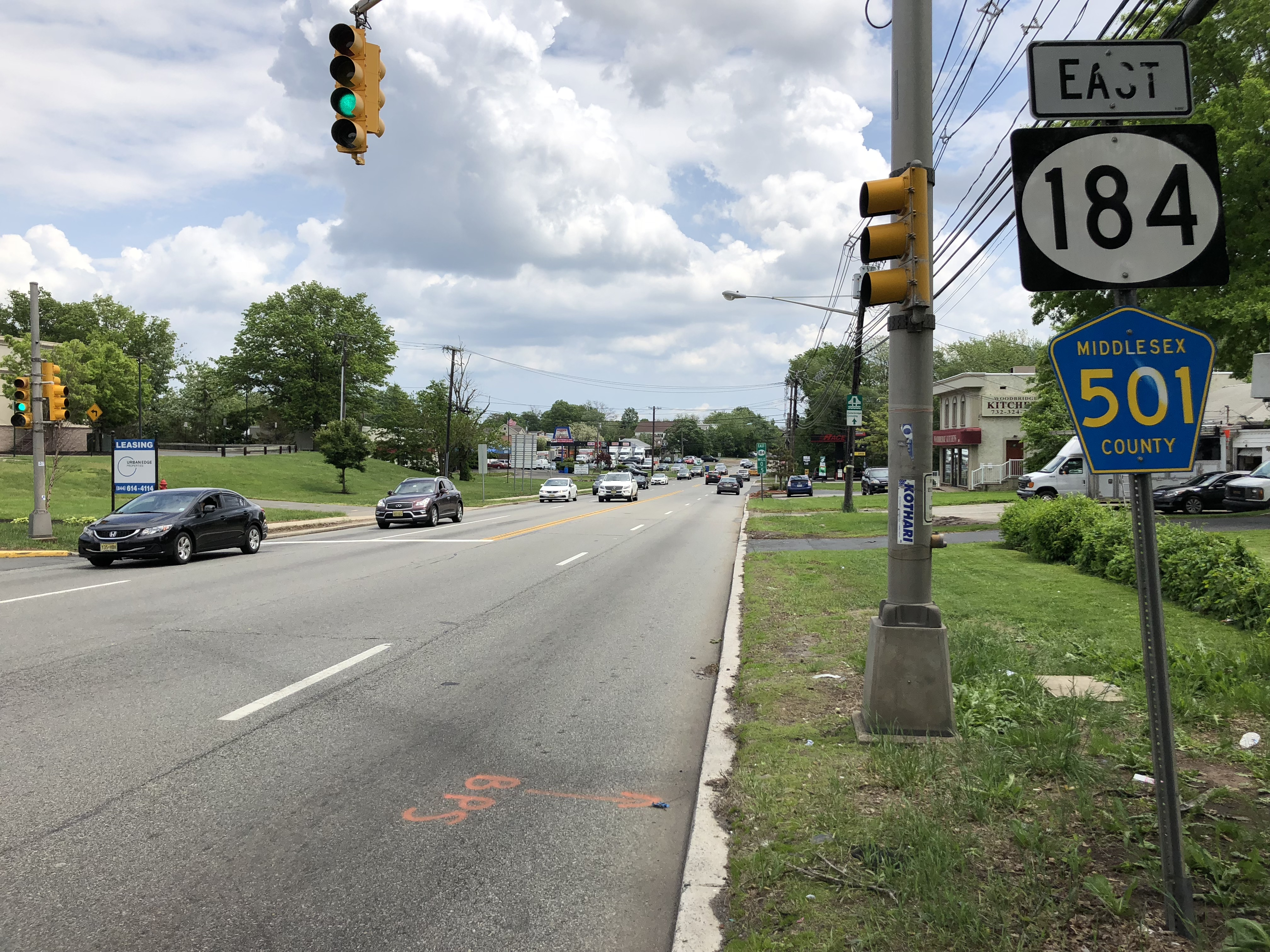 View east along New Jersey State Route 184 and Middlesex County Route 501 (West Pond Road) just east of U.S. Route 9 in Woodbridge Township, Middlesex County, New Jersey